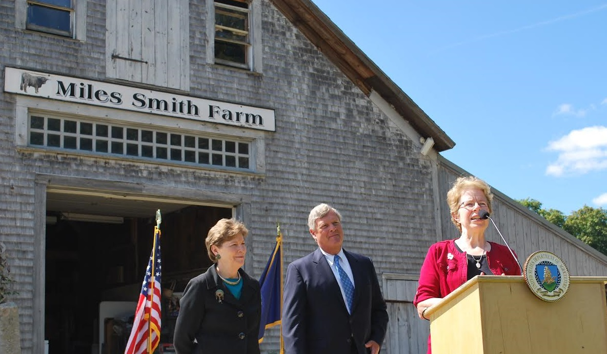 A photo of Jeanne Shaheen, Tom Vilsack, and Lorraine Merrill at a New Hampshire farm in August of 2014. Other information The photo has been cropped slightly. Credit to U.S. Department of Agriculture